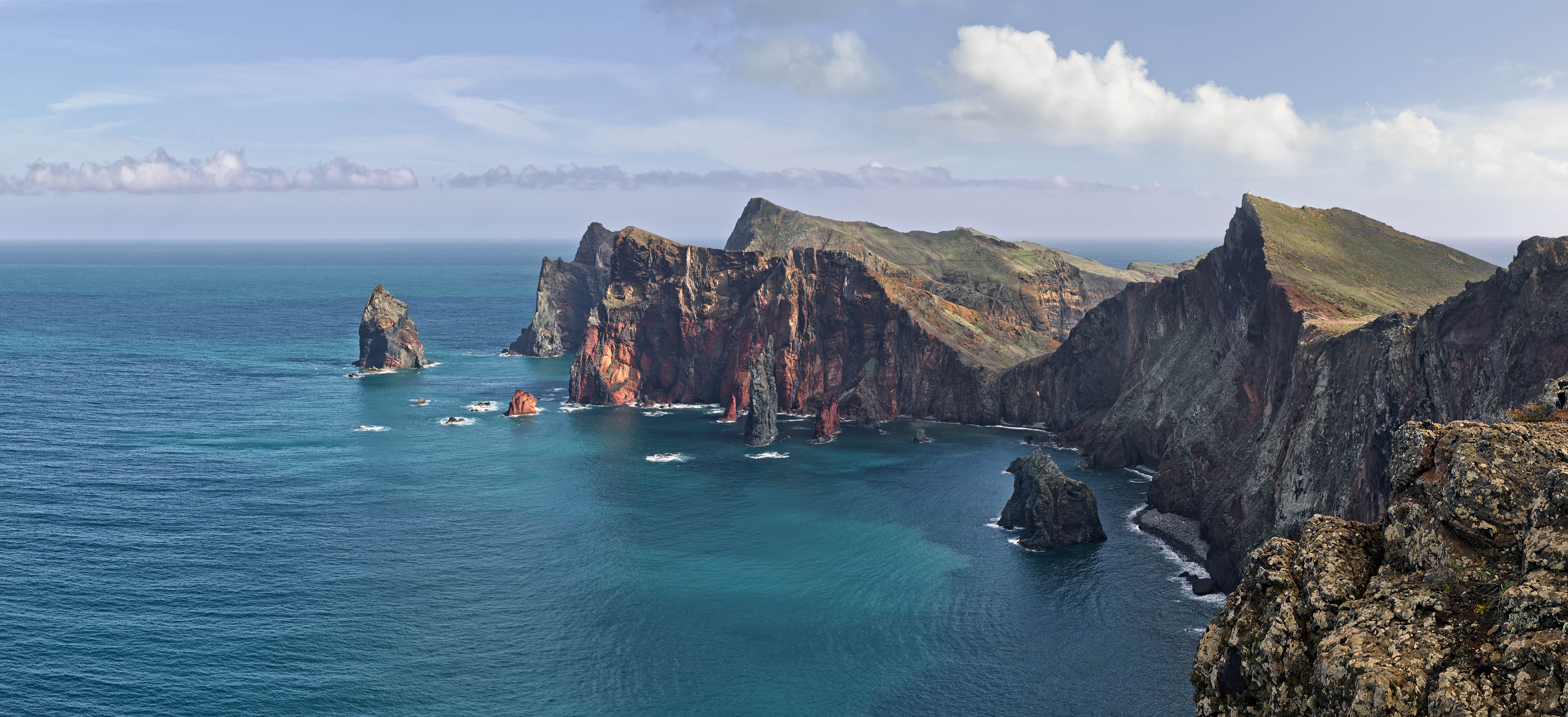 Ponta de São Lourenço, Madeira, Portugal. Heading north north east.